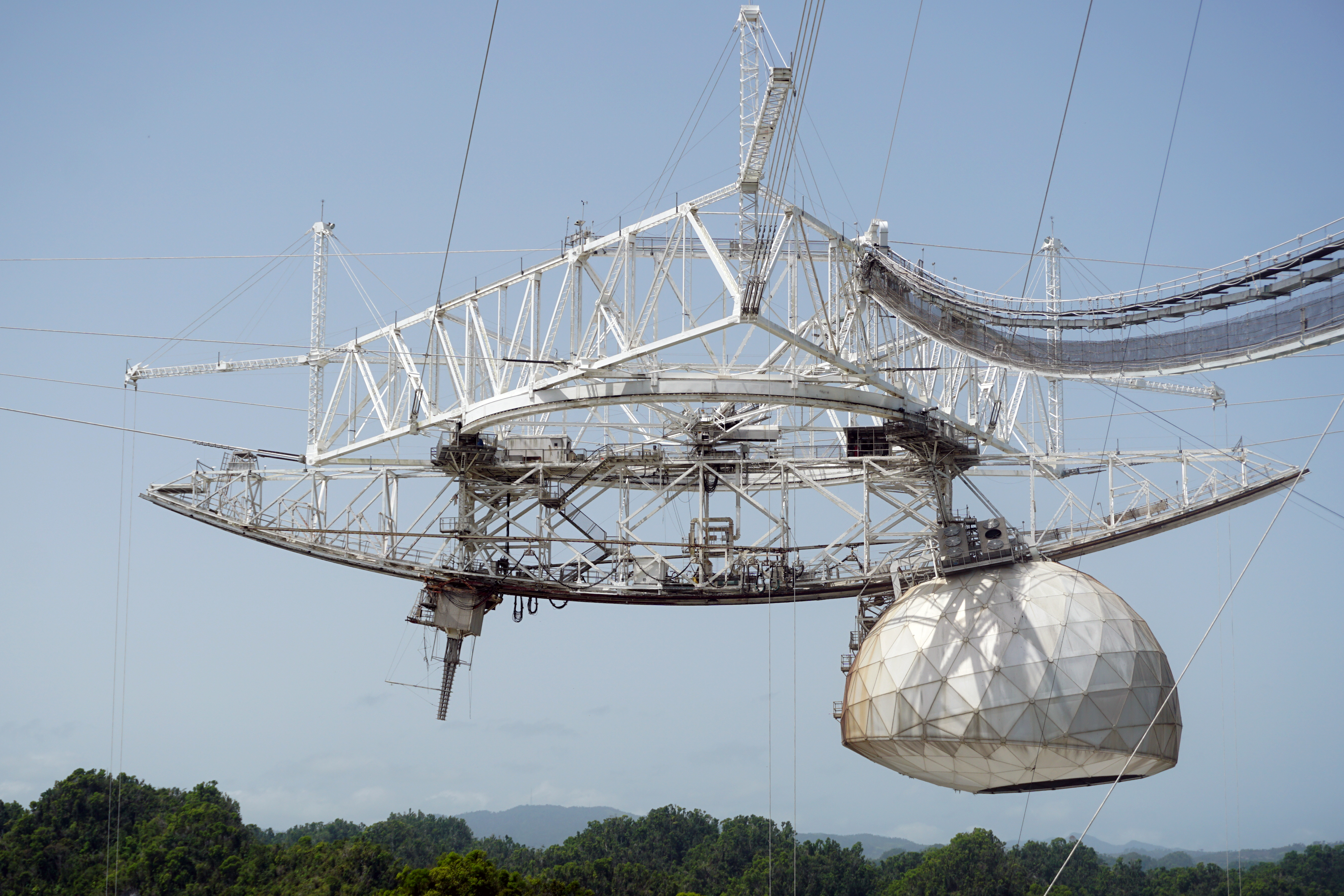 A close-up view of the beam-steering mechanism of the Arecibo radio telescope. Arecibo Observatory, Puerto Rico